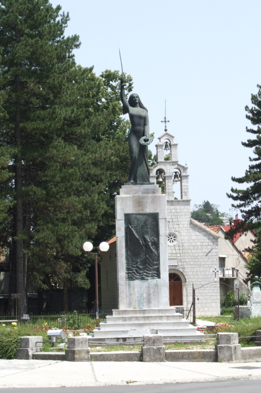 Memorial in front of Vlach church in Cetinje